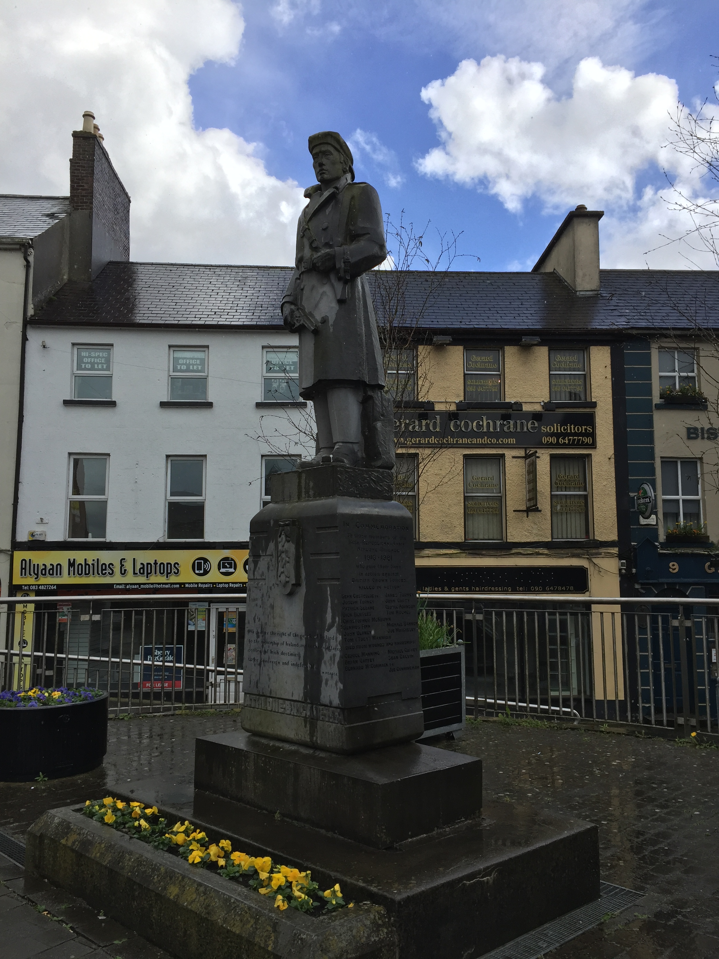 IRA Memorial, Custume Place, Athlone, County Westmeath, commemorating the Athlone Brigade of the IRA (1916-1921). Carved by Desmond Broe, a member of a prominent family of sculptors operating out of Harold's Cross in Dublin.